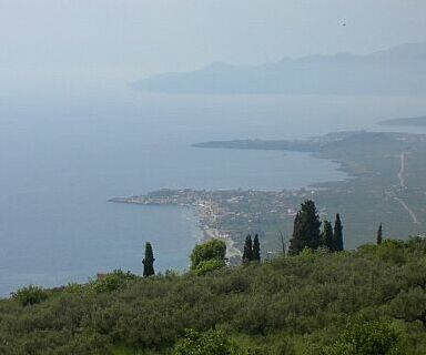 This photo was taken by User:Adam Carr in April 2002.